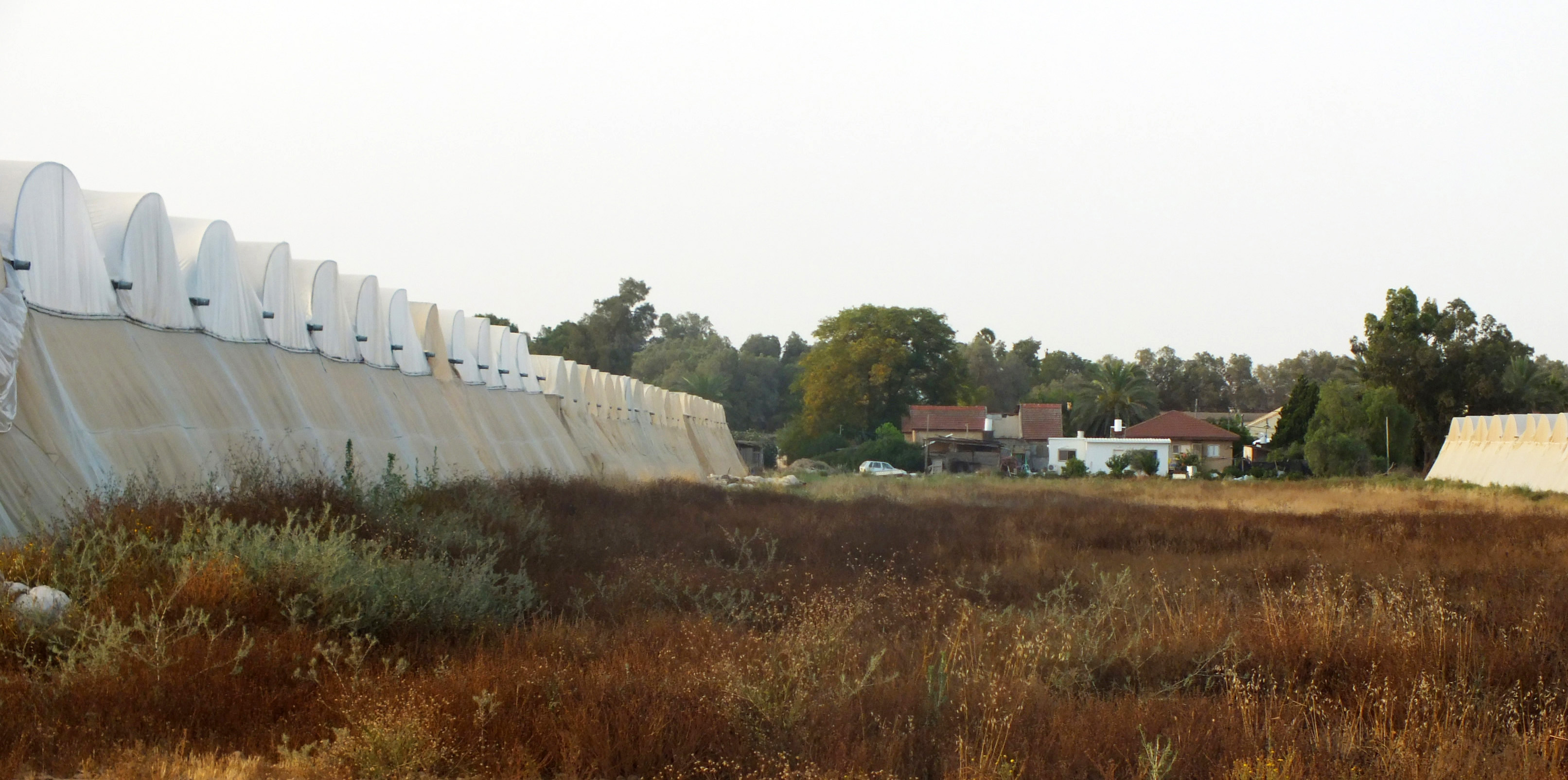 Moshav Gilat.